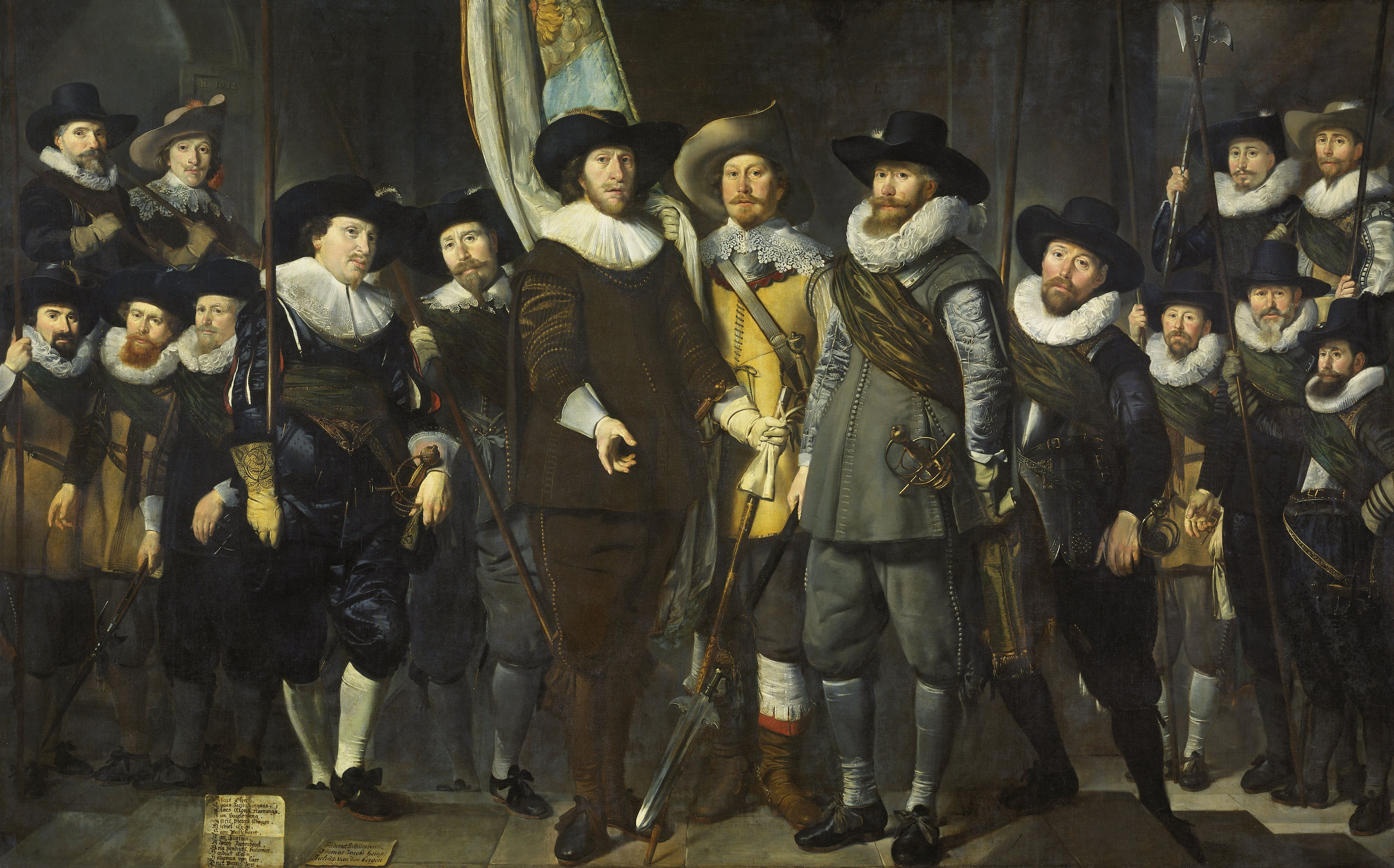 Officers and other militiamen of district III in Amsterdam lead by Captain Allaert Cloeck and Lieutenant Lucas Jacobsz. Rotgans. The other militiamen are: Claes Coeck Nanningsz (with banner), Jan Vogelensang, Gerrit Pietersz Schagen, Michiel Colijn, Hans Walschaert, Jan Kuysten, Adolf Fortenbeeck, Aris Hendrick Hallewat, Hendrick Colijn, Hademan van Laer, Dirck Pietersz Pers, Frederick Schulenborch, Thomas Jacobsz Hoingh and Julius van den Bergen.